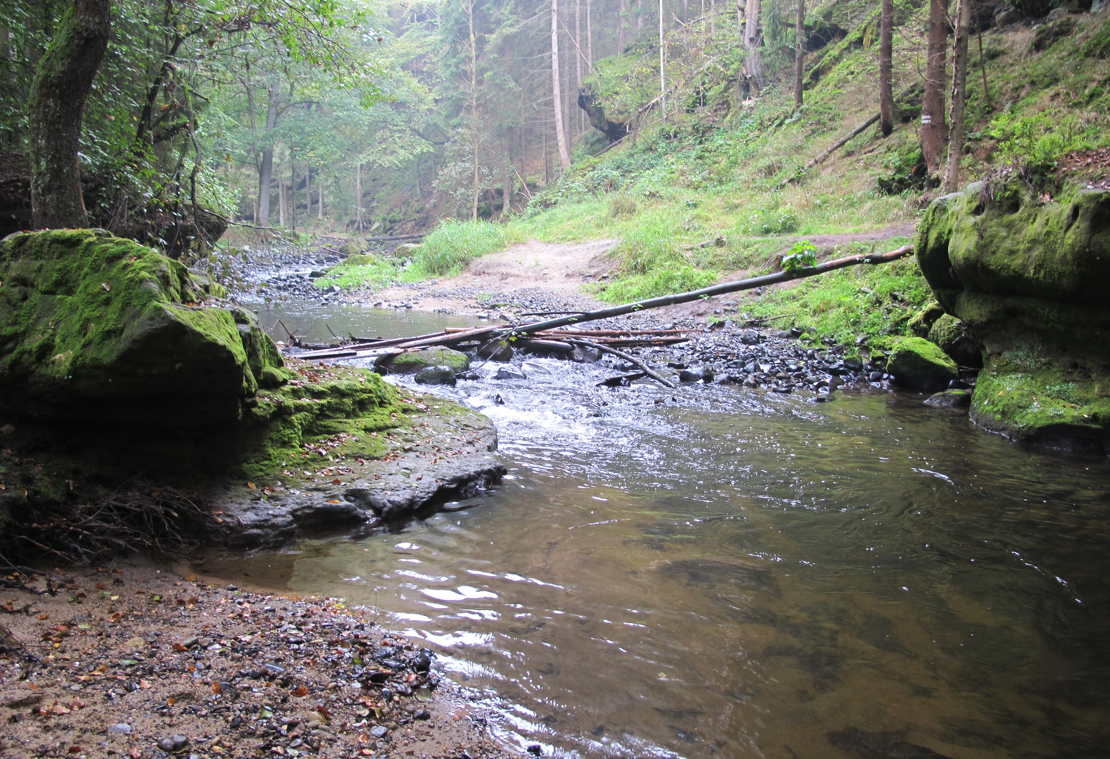 Chřibská Kamenice river in nature reserve Pavlínino údolí near Jetřichovice-Rynartice, Děčín District in Czech Republic